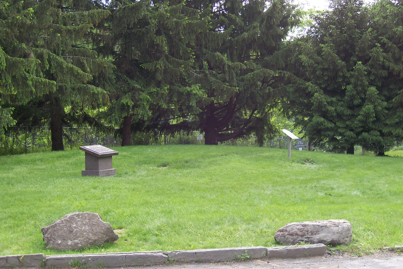 The homesite of Joseph Smith, Jr. and his wife Emma Smith. The homesite is part of the Aaronic Priesthood Restoration Site, and is located in Oakland Township, Pennsylvania, United States (historically the Harmony Township). Joseph and Emma arrived here in December 1827 and had a home, built by Emma's brother Jesse Hale in the 1820s, moved to this location. Joseph and Emma's first child, Alvin, was born and died in the home (he is buried just east of the site in the McKune Cemetery). The Smiths moved away in August 1830 and the home was destroyed in 1919. Since the 1940s The Church of Jesus Christ of Latter-day Saints has been acquiring the land where Joseph and Emma lived and nearby property to protect the historic site.